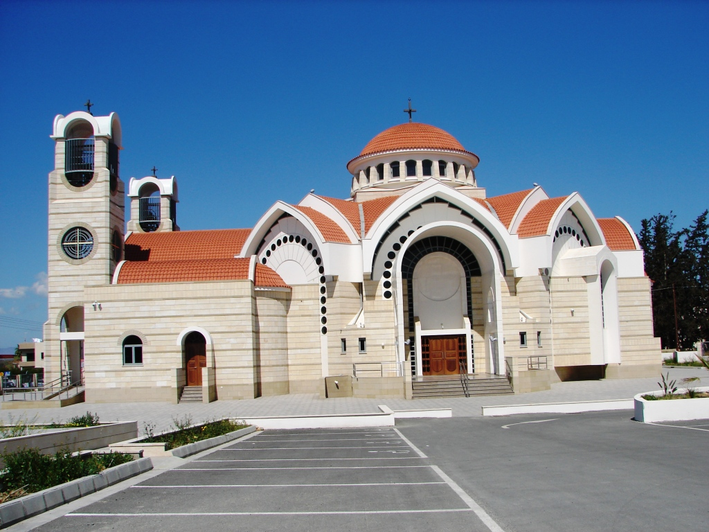 a@a tseri village new church "Agiou Constantinou & Elenis" 5 cy